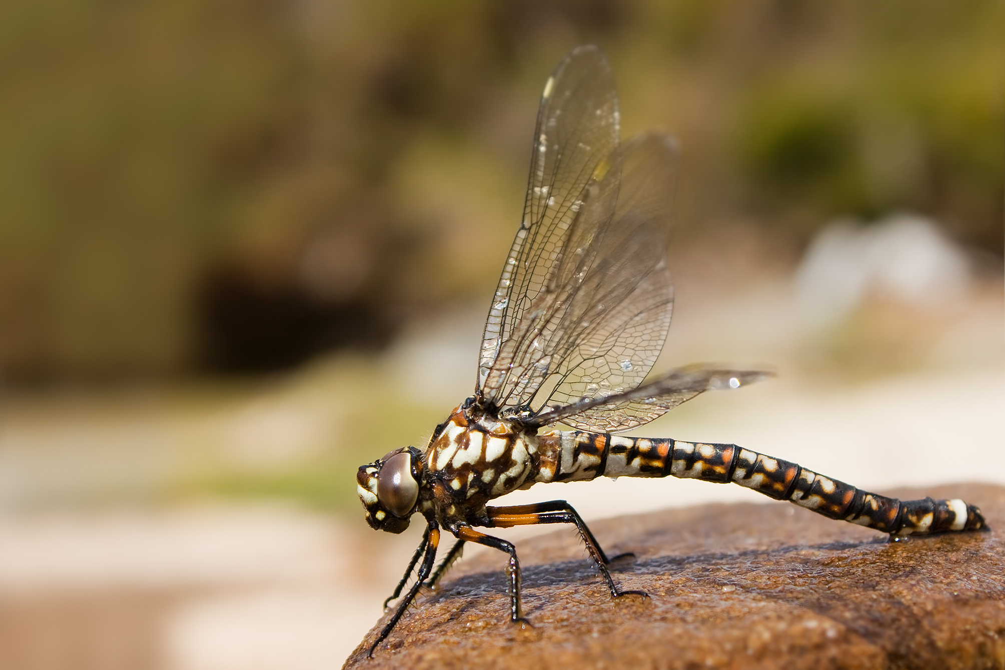 Lesser Tasmanian Darner (Austroaeschna hardyi), female, on the Edge of Lake Will, Cradle Mountain - Lake St Clair National Park, Tasmania Australia